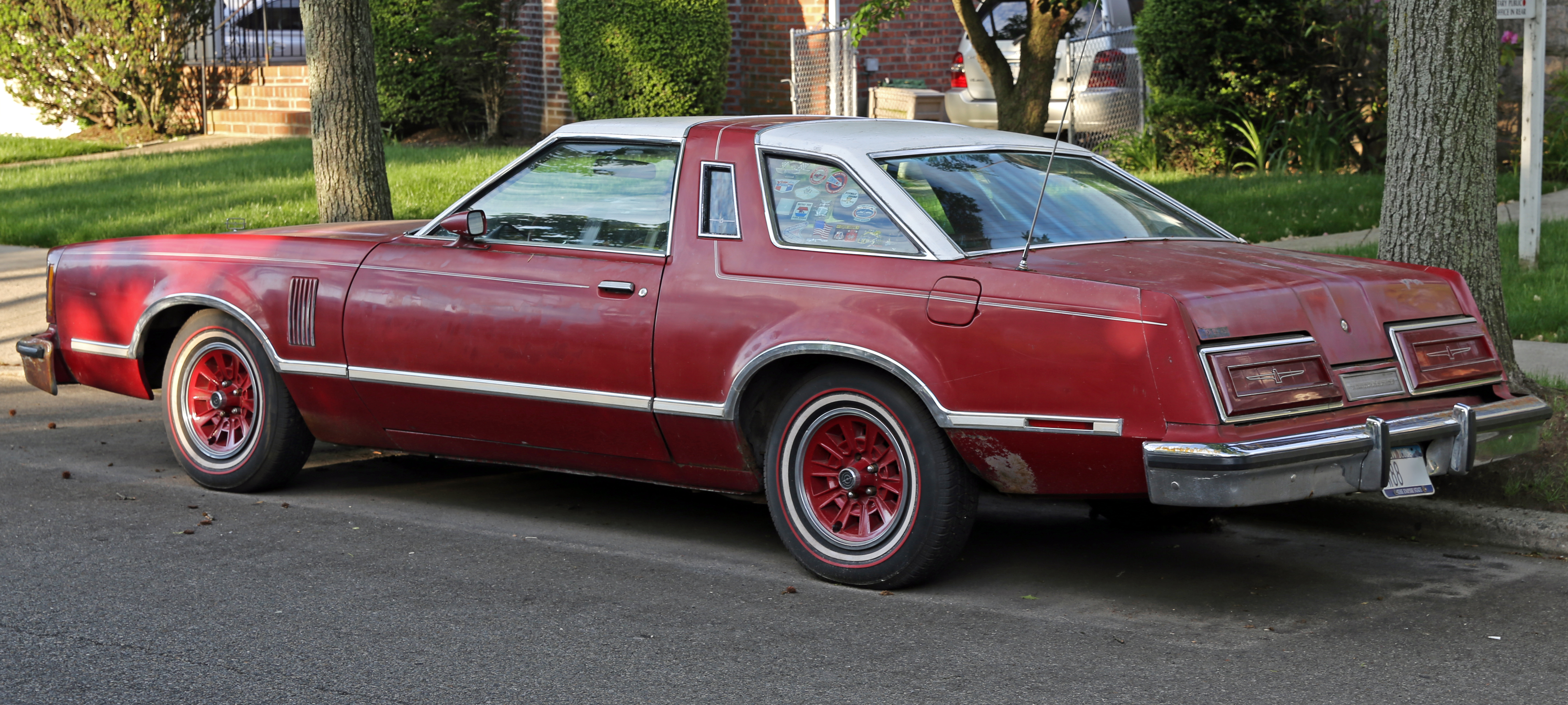 Rear of a 1979 Ford Thunderbird with the 351W V8 engine. Built in Chicago, IL.